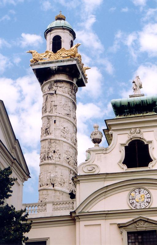 Austria, Vienna, St. Charles's Church